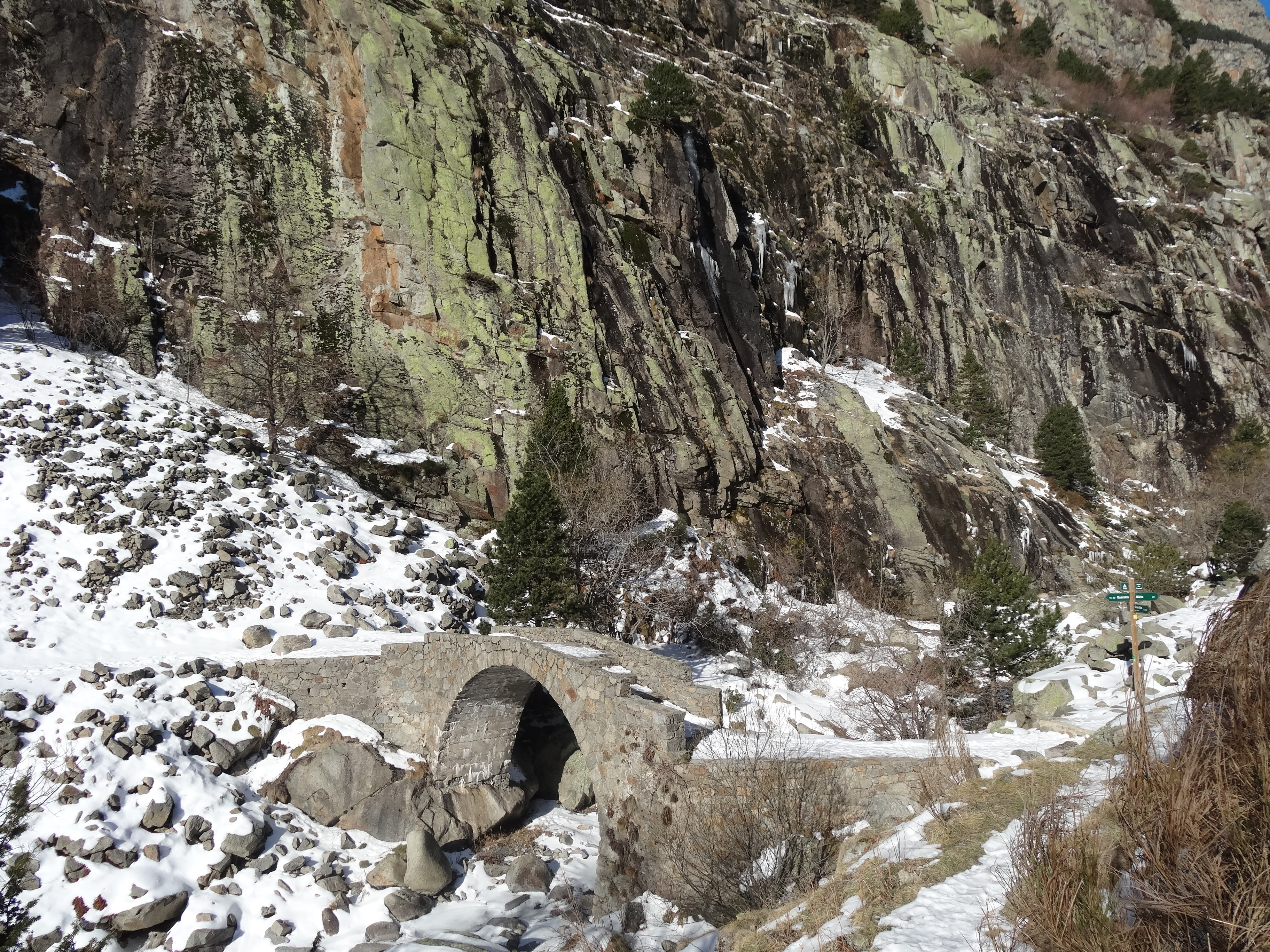 Queralbs, 17534, Province of Girona, Spain